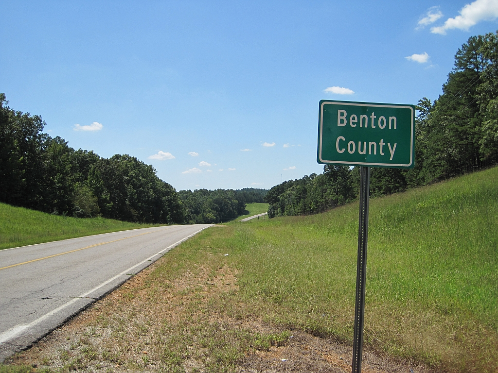 Benton County, Mississippi sign